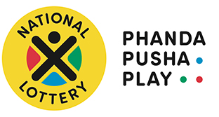 This is a logo for South African National Lottery